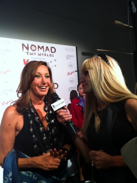 Interview with Donna Karan, fashion designer